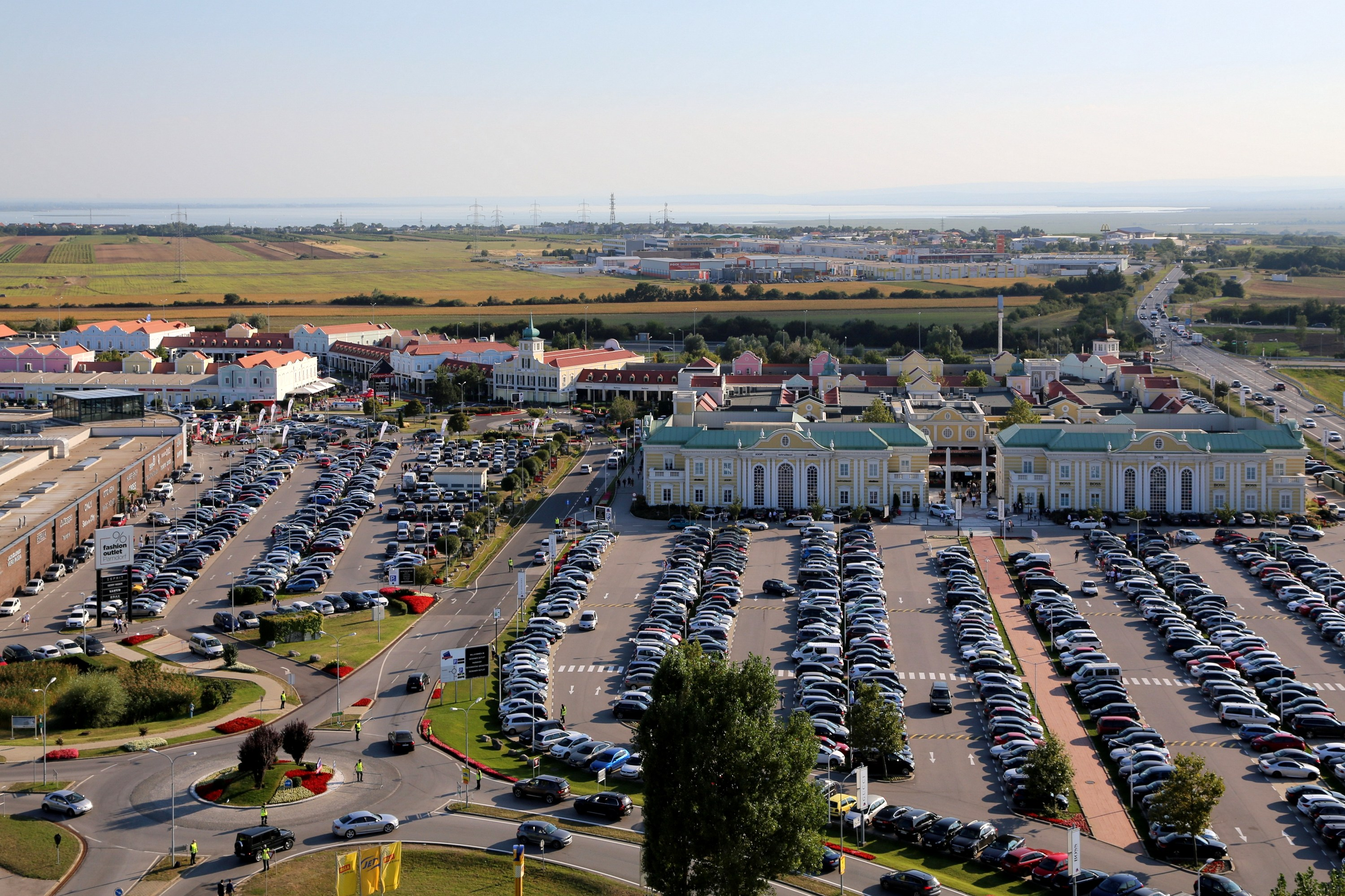 Parndorf - Factory-Outlet-Center